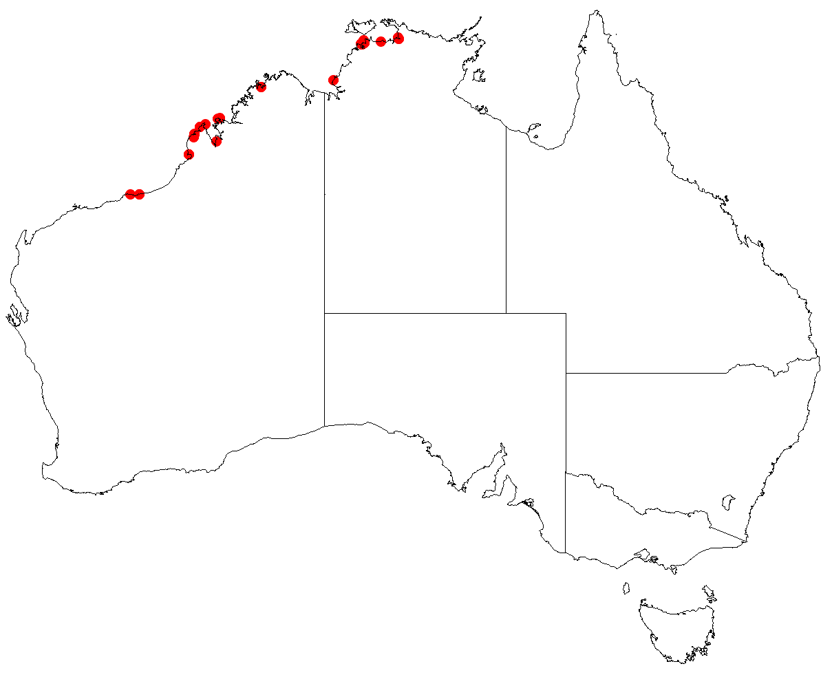 Australian distribution of Amyema thalassia based on download from Australasian Virtual Herbarium May 9, 2018